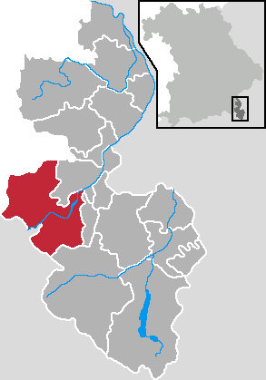 Locator maps of municipalities in Bavaria - District Berchtesgadener Land